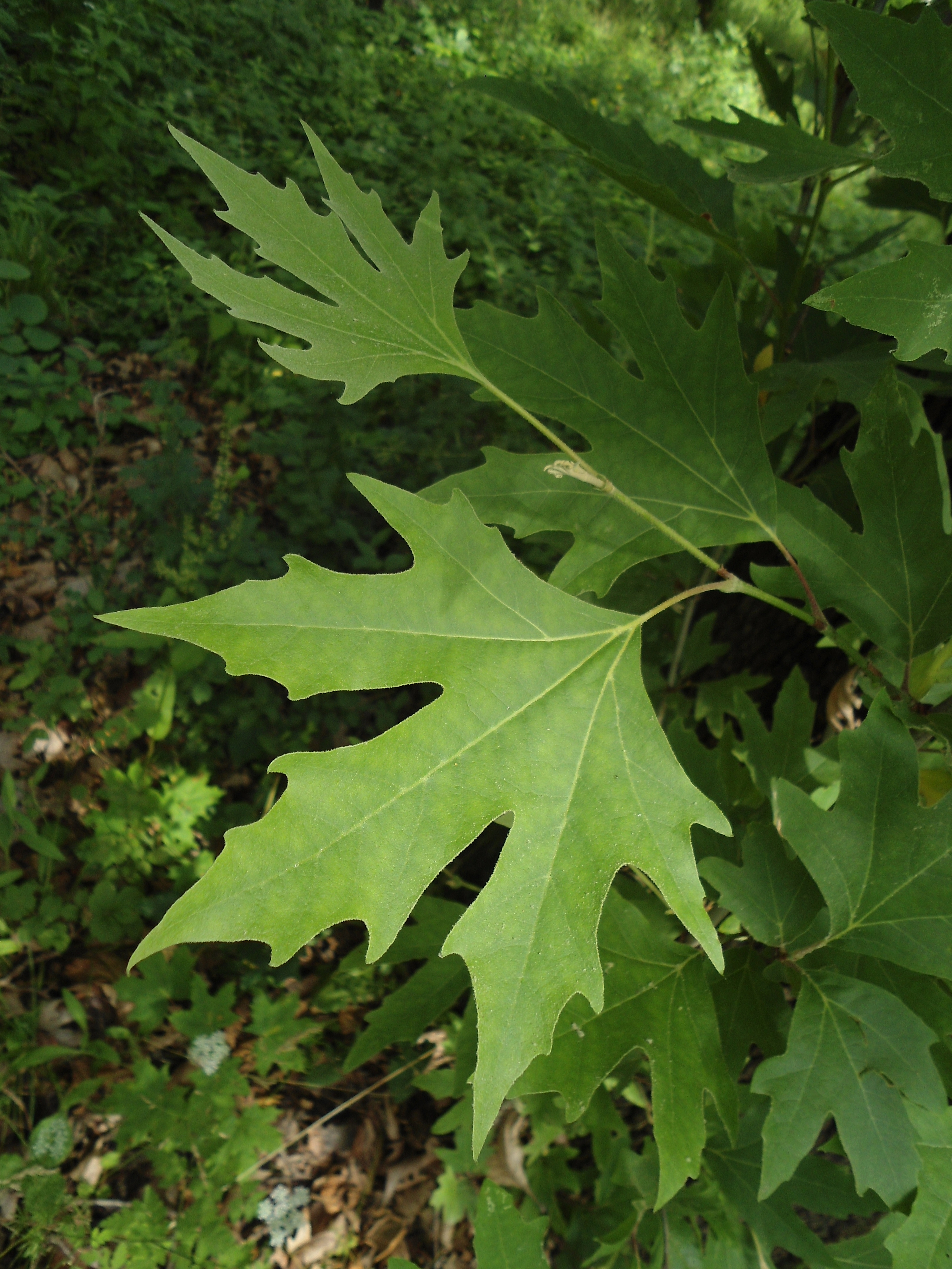 Oriental plane - leaves.